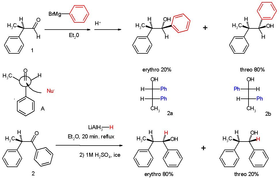 Cram rule Of Asymmetric Induction